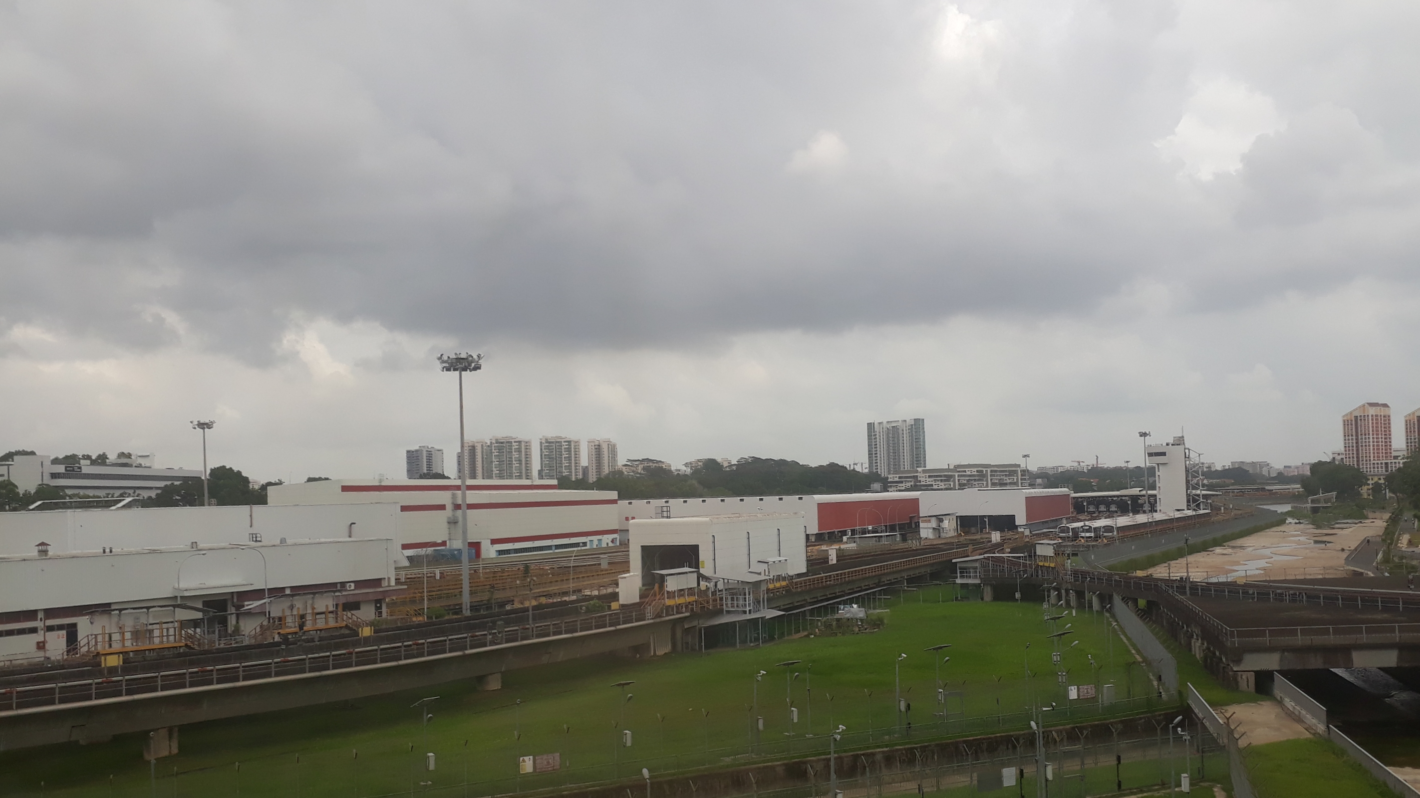 Bishan Depot